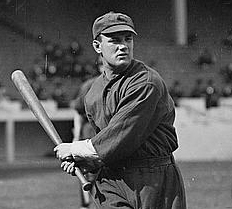 1913 photograph of Johnny Bates, outfielder for the Cincinnati Reds. This image is cropped slightly from the original plate.